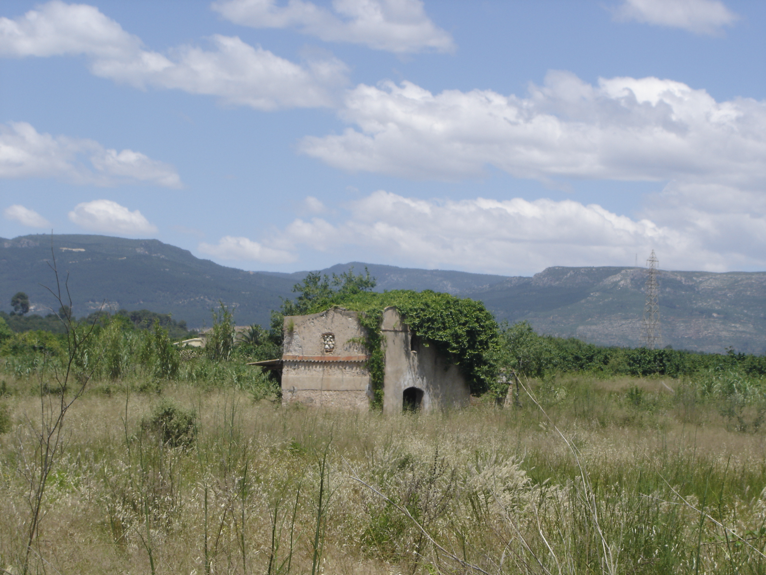 Mas d'Espardenya at El Rourell.